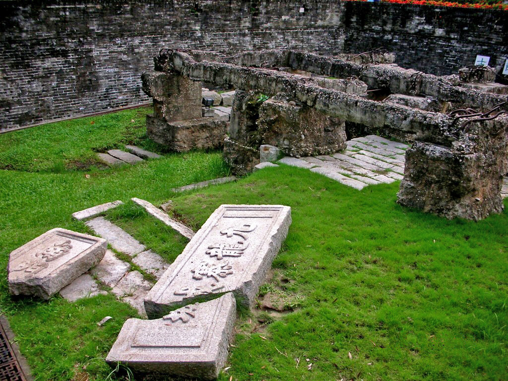 South Gate, Kowloon Walled City, Hong Kong 香港九龍寨城公園南門遺跡